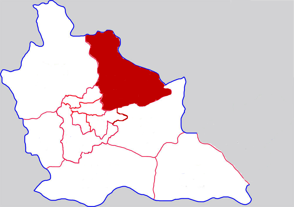 Location of Weihui county-level city in Xinxiang city, China